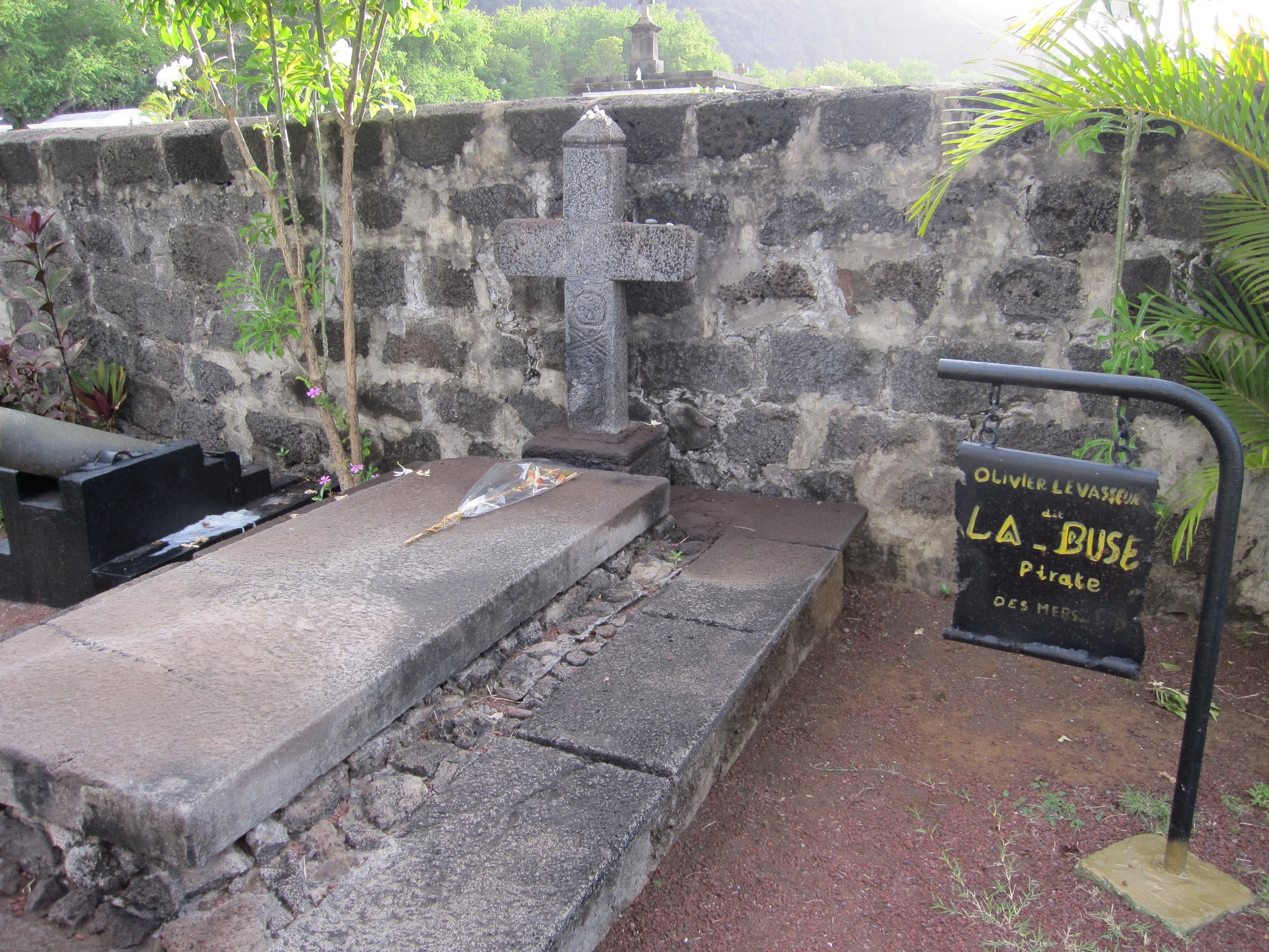 Grave of Oliver Levasseur, "La Buse" Pirate in Saint-Paul, Reunion